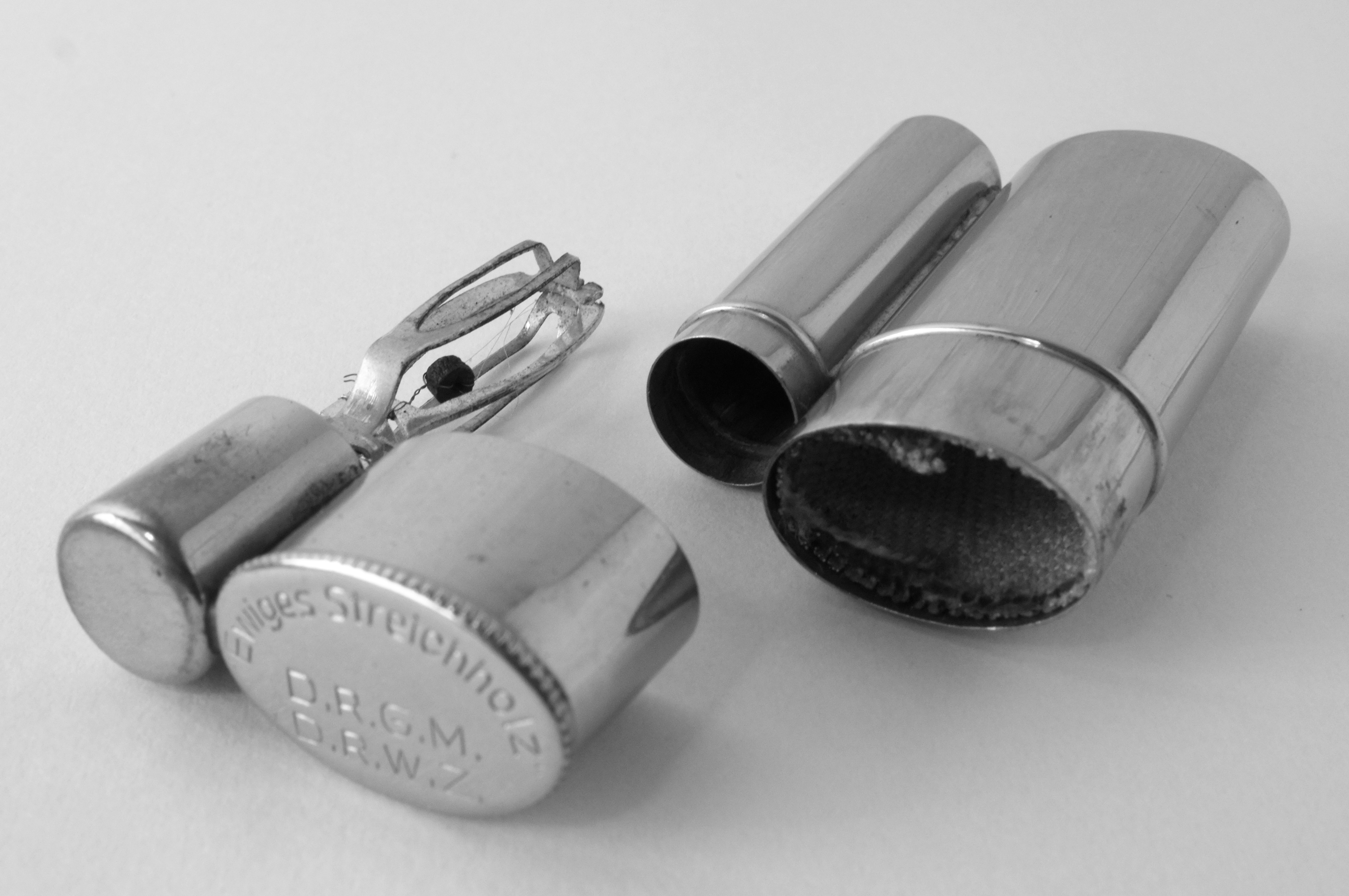 A methanol platinium lighter "Ewiges Streichholz" (eternal match) build in the 1930 years. The padded container gets filled with methanol, the metanol vapors are lit catalytically by a thin platinum wire. The lighter is 5 x 3.2 x 1.2cm in size.